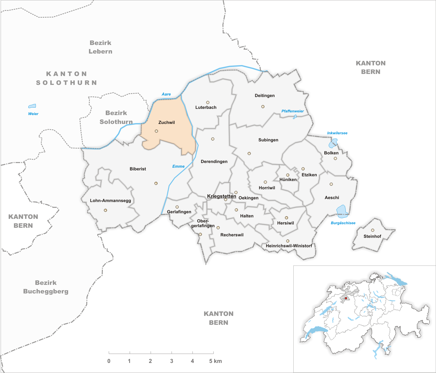 Municipality Zuchwil